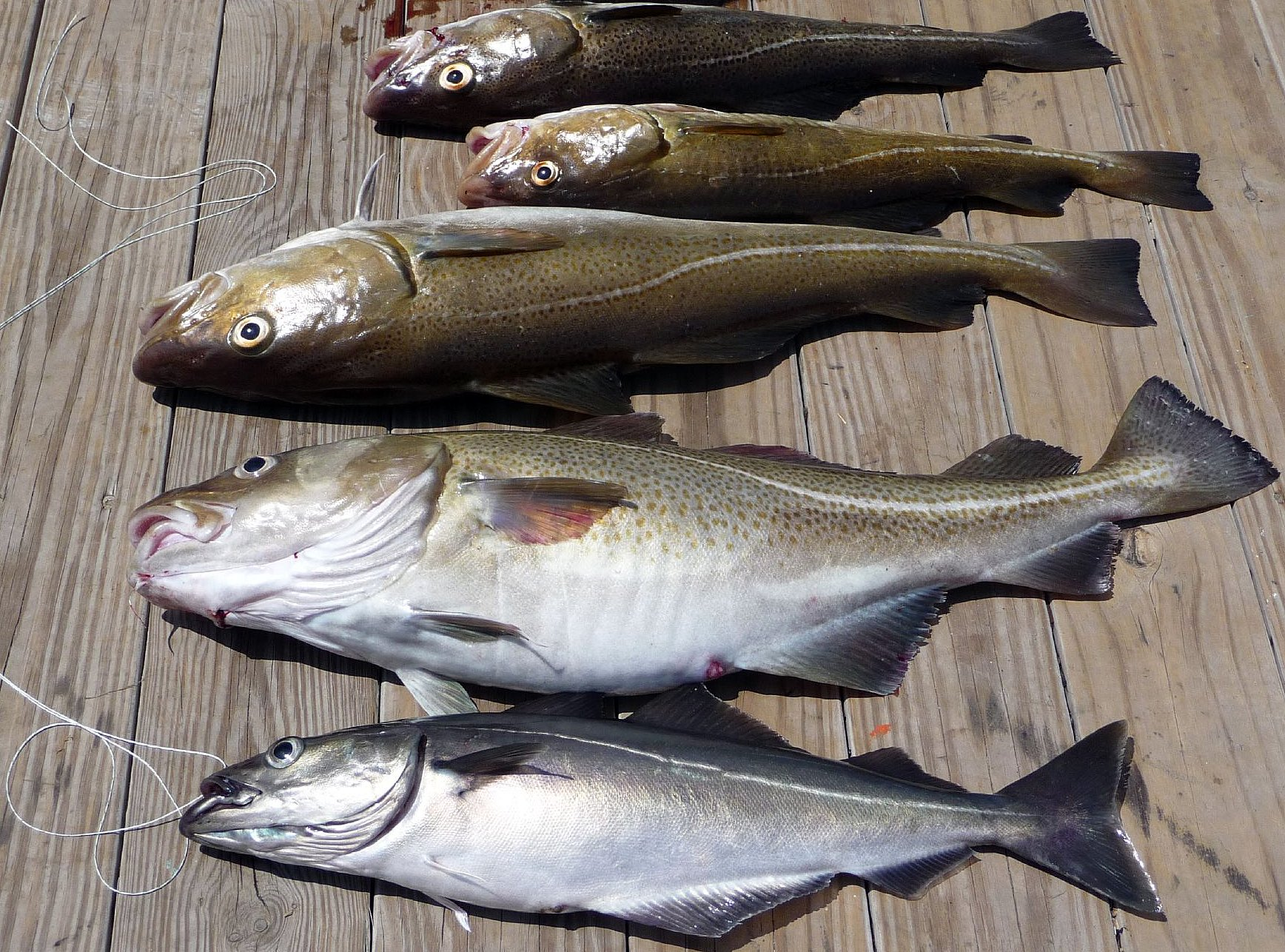 Frye's fish